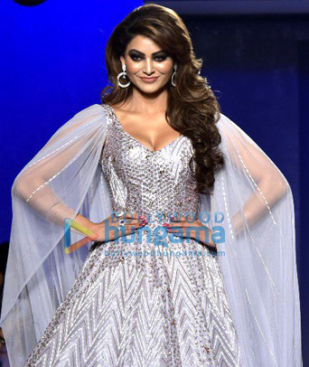 Urvashi Rautela and others walk the ramp as show stoppers at Lakme Fashion Week 2019 Day 5